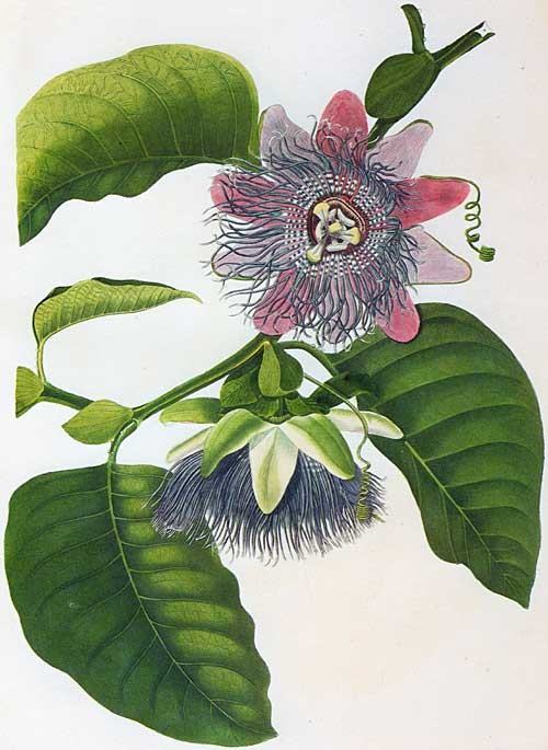 Plate showing "Passiflora quadrangularis" L. from François Richard de Tussac's "Flore des Antilles"